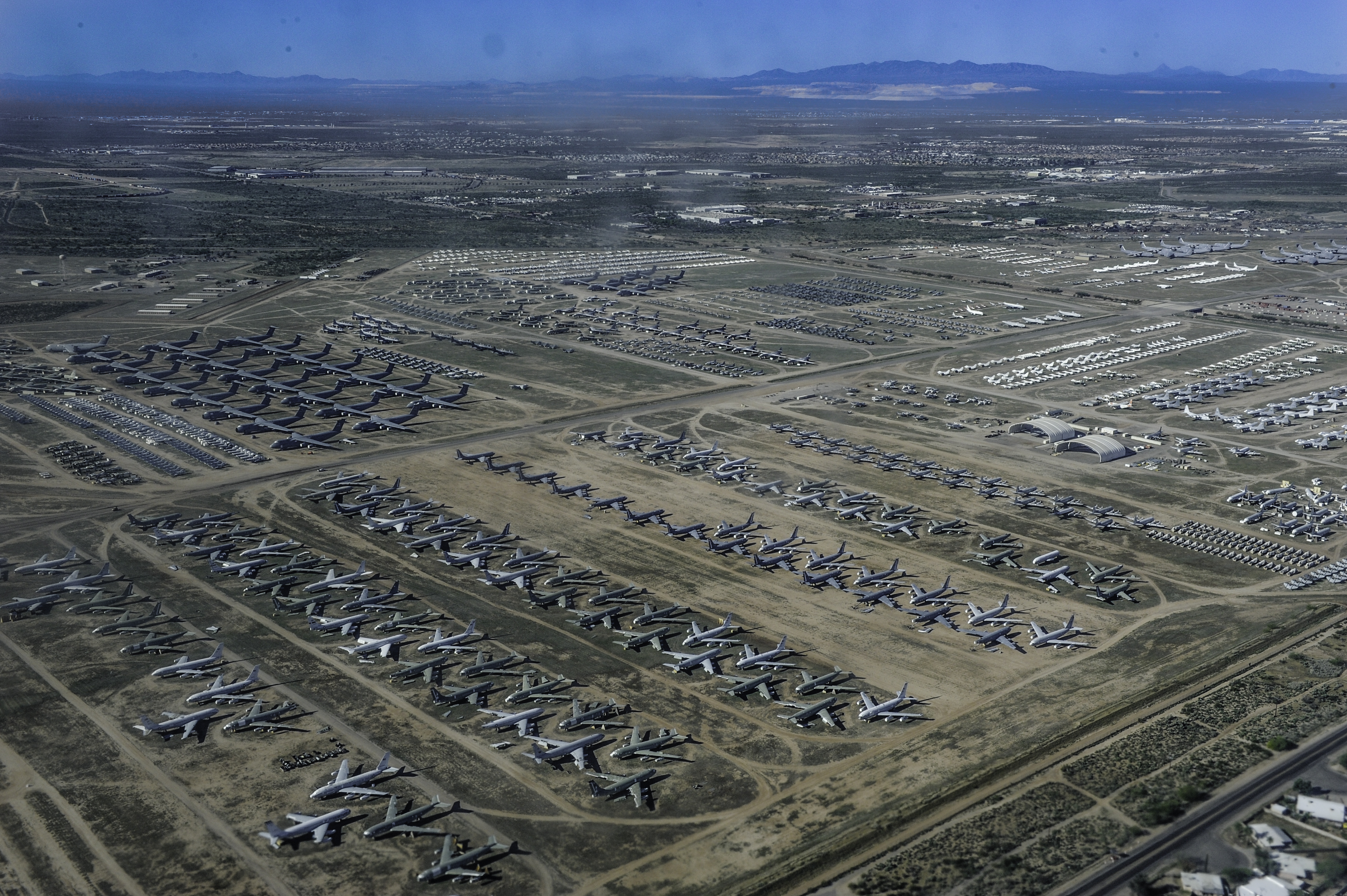 An aerial view of retired U.S. military planes taken from aircraft 916, a Lockheed P-3C Orion maritime patrol aircraft from Patrol Squadron (VP) 9 "Golden Eagles", as it circles the 309th Aerospace Maintenance and Regeneration Group (309th AMARG) at Davis-Monthan Air Force Base in Tucson, Arizona (USA). The 309th AMARG is responsible for the storage and maintenance of aircraft for future redeployment, parts, or proper disposal following retirement by the military.